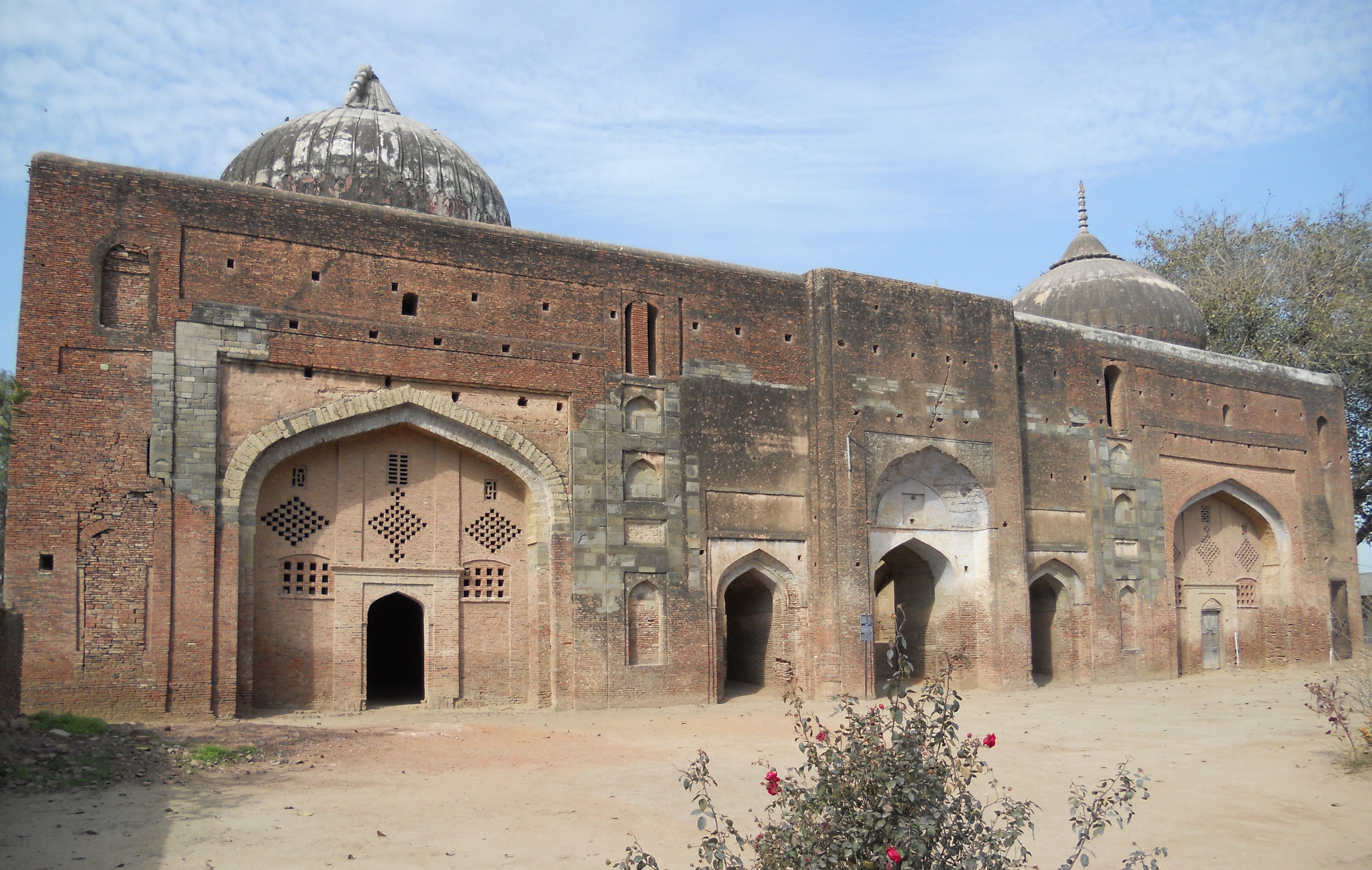 Sadhna Maseet is mosque of Bhagat Sadhana Butcher, a devotee whose hymn is present in Adi Guru Granth Sahib and who spend his last days of Life at Sirhind preaching Gurmati philosophy. This is only his memorial present at Sirhind and preserved by Punjab Government. The paintings in the mosque represent the 'T' art form and made up of Sirhindi bricks and is situated in the Northwestern part of town Sirhind near Level Crossing, District Fatehgarh Sahib, Punjab.